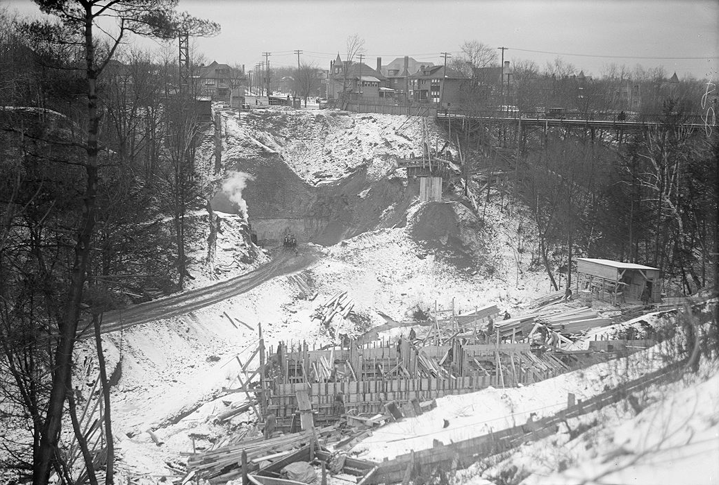 Construction on the Vale of Avoca in Toronto, Canada. The old Iron Bridge (built 1888 by John T. Moore) is visible in the background. It was dismantled immediately after the new structure opened; the material was used to forge the fence that lines the eastern side of Avoca Avenue.